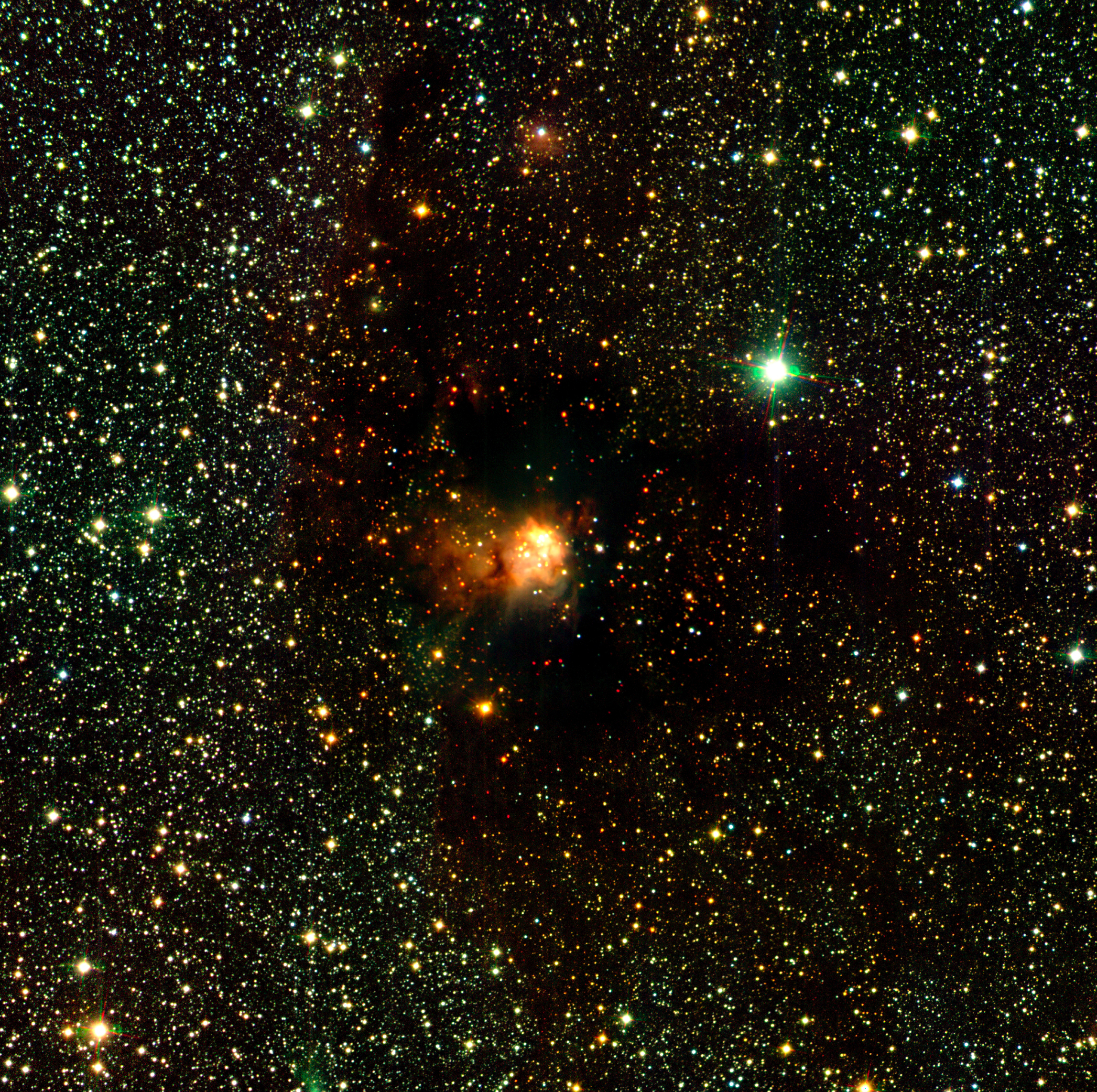 Image showing a unique, wide-field infrared view of the region around IRAS 16362-4845 , an "emission" nebula that shines by its own light. It is situated within a dark cloud in a Milky Way region (the "RCW 108 complex" ) at a distance of about 4,000 light-years in the direction of the Southern constellation of Ara (the Altar). The dark cloud is seen silhouetted against the rich background of stars in the Milky Way, whose light is blocked by the dust particles in the cloud. The photo is based on approx. 600 individual exposures with the SOFI instrument at the 3.58-m ESO New Technology Telescope (NTT) . The field-of-view measures about 13 x 13 arcmin 2 , coresponding to 17 x 17 light-years 2.